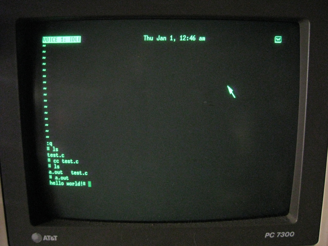 Picture showing the terminal of an AT&T PC 7300 Unix PC. You can see a hello world C source file was created in vi, compiled with cc and then run. The mouse cursor is used to access the GUI like window system. This picture was taken on April of 2009.